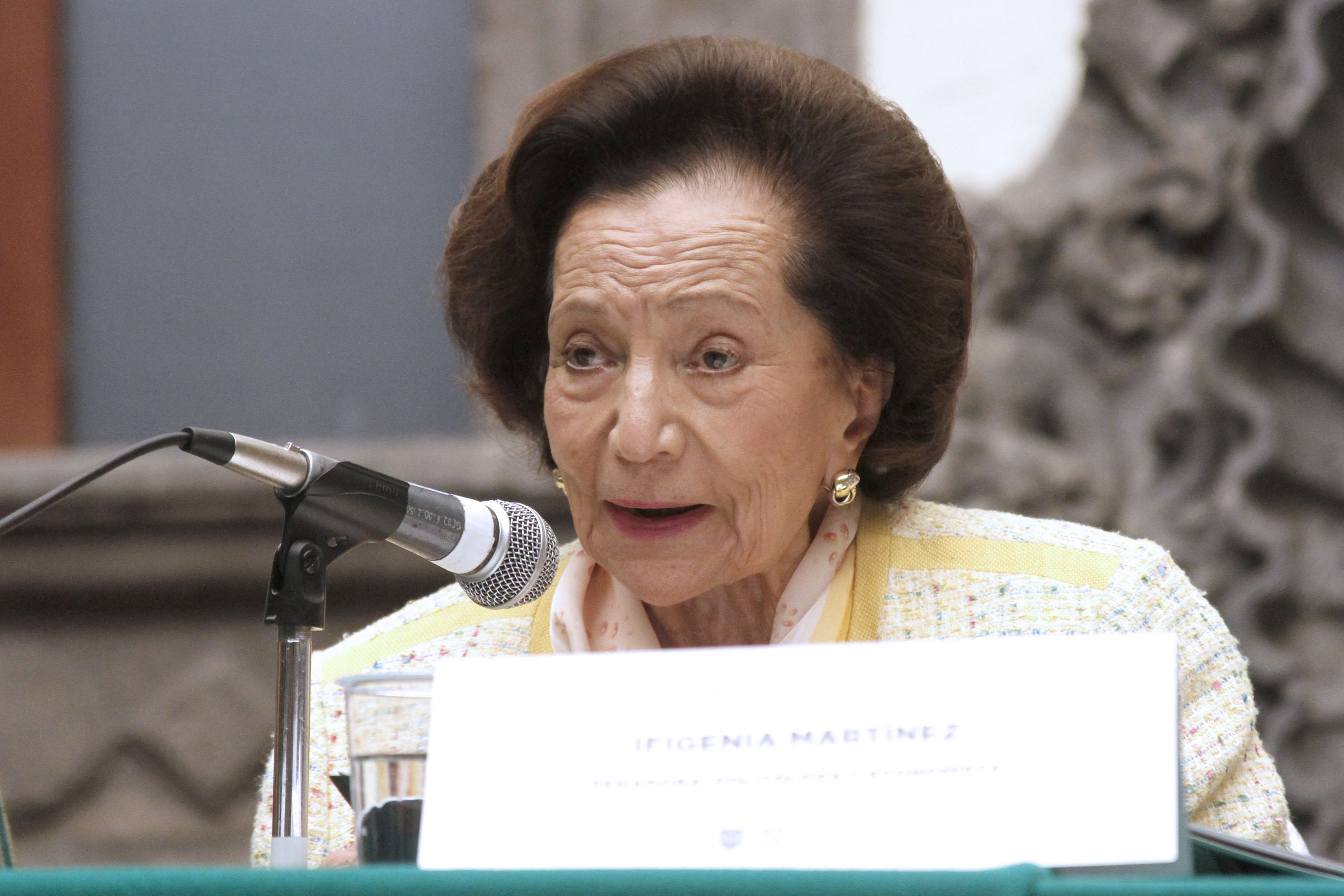 Saturday, May 4, 2019. Mexico City. Ifigenia Martinez at a conference. Picture by Maritza Rios / Secretaria de Cultura de la Ciudad de Mexico.